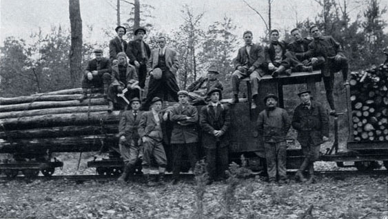 Students from the Biltmore Forest School inspecting a portable forest railroad line in Darmstadt, Germany. Image published in Carl Alwin Schenck's "Logging and Lumbering; or, Forest Utilization. A Textbook for Forest Schools." Printed by L. C. Wittich, c. 1912.